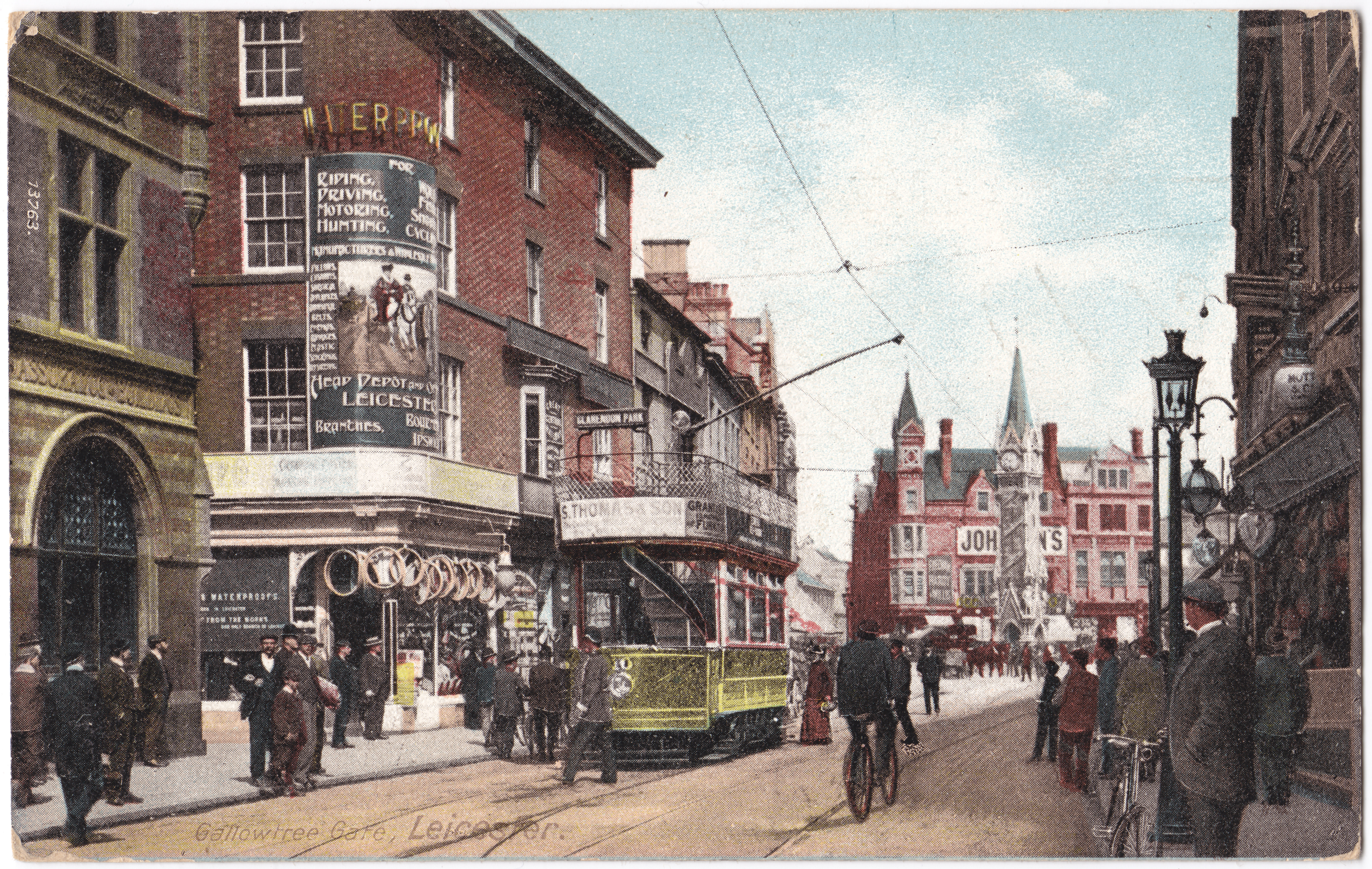 Gallowtree Gate, Leicester. Published in (or before) 1905, photographer unknown: therefore in public domain in UK copyright law.